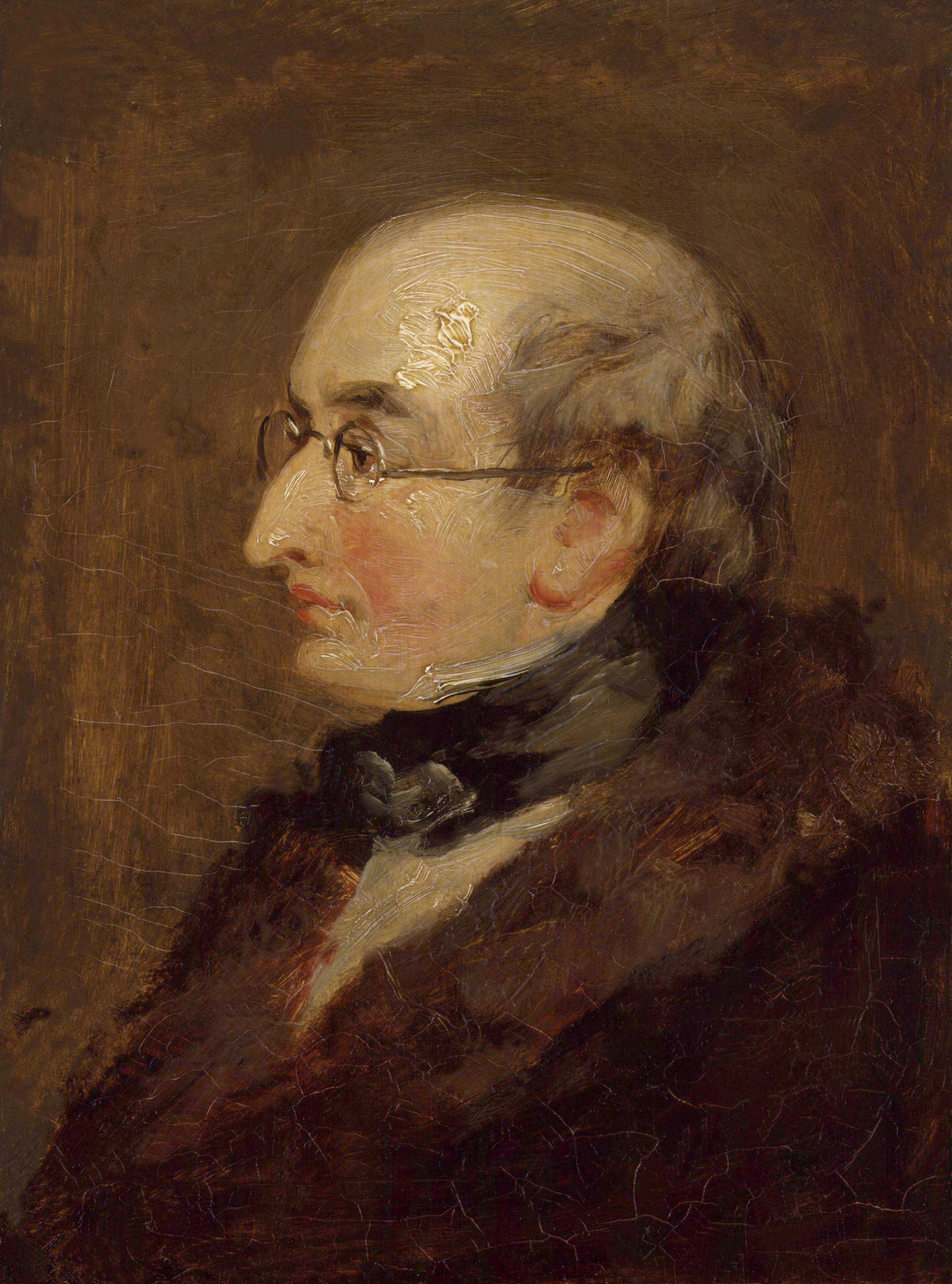 Benjamin Robert Haydon, by Benjamin Robert Haydon (died 1846). All images in this batch have been confirmed as author died before 1939 according to the official death date listed by the NPG.